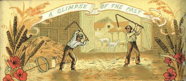 Threshing with hand flails from a Ransomes, Sims & Jefferies Ltd. (a British agricultural machinery firm) lithographed advertising poster